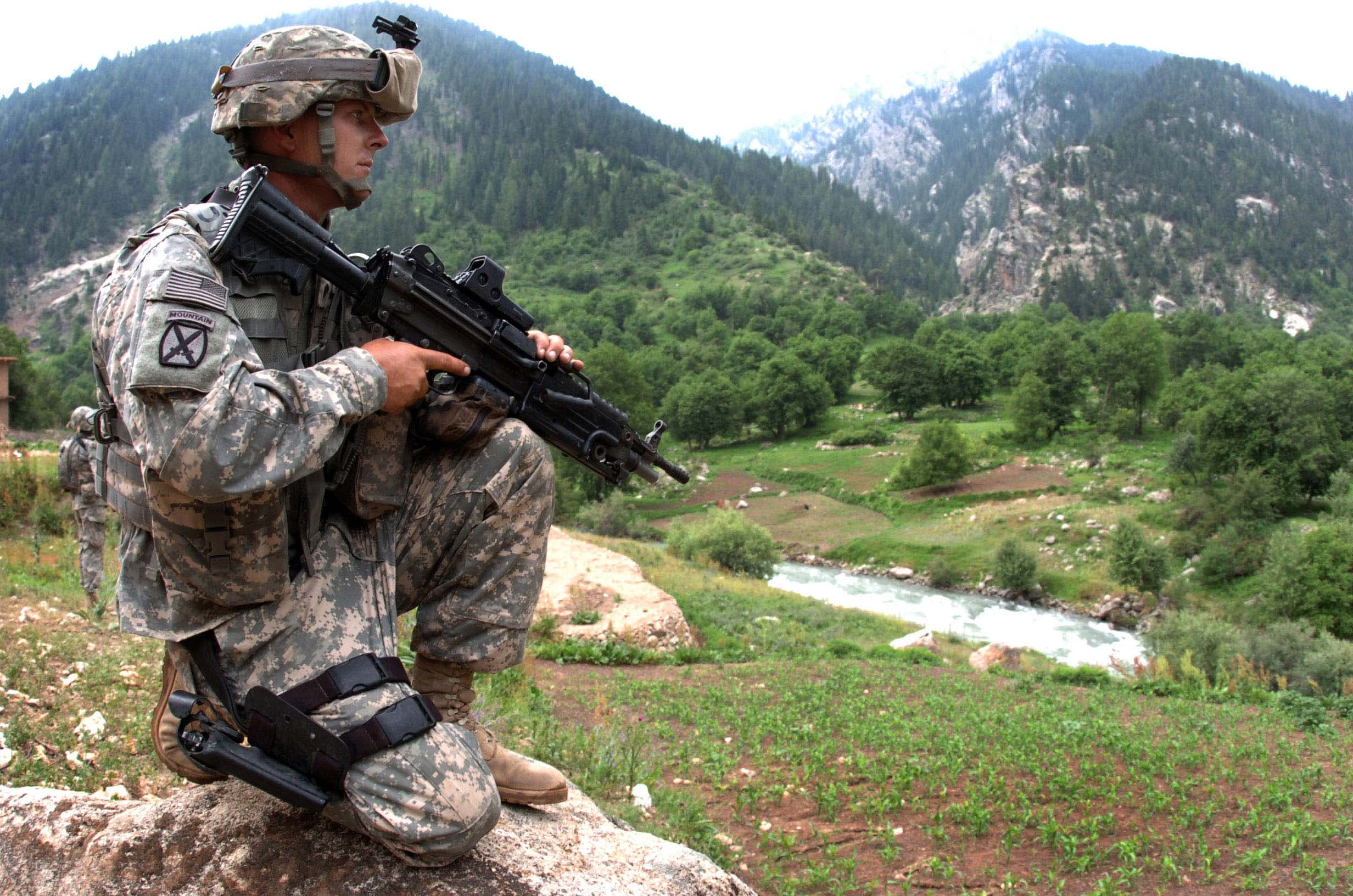 U.S. Army Spc. Jason Curtis provides security for members of a medical civil action project in Parun, Afghanistan, on June 28, 2007. Curtis is assigned to Charlie Company, 1st Battalion, 151st Infantry Regiment.